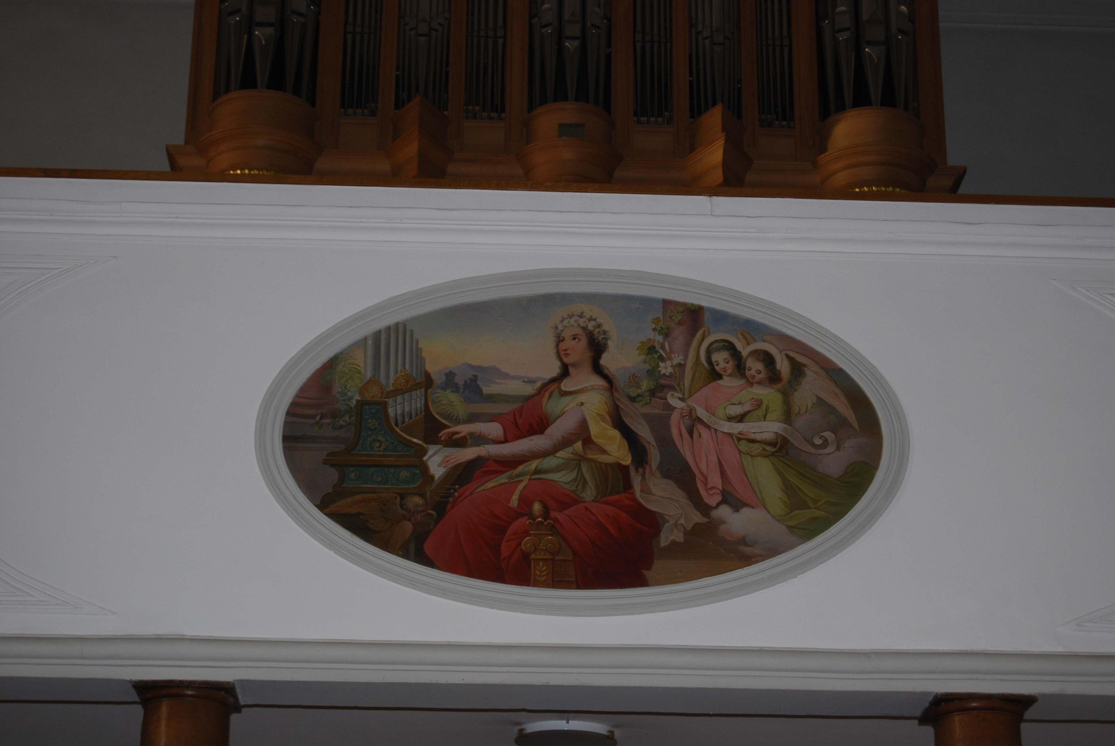 Frescos in the church of Tägerig, canton of Aargau, SwitzerlandEsperanto: Freskoj en la preĝejo de Tägerig, Kantono Argovio, Svislando